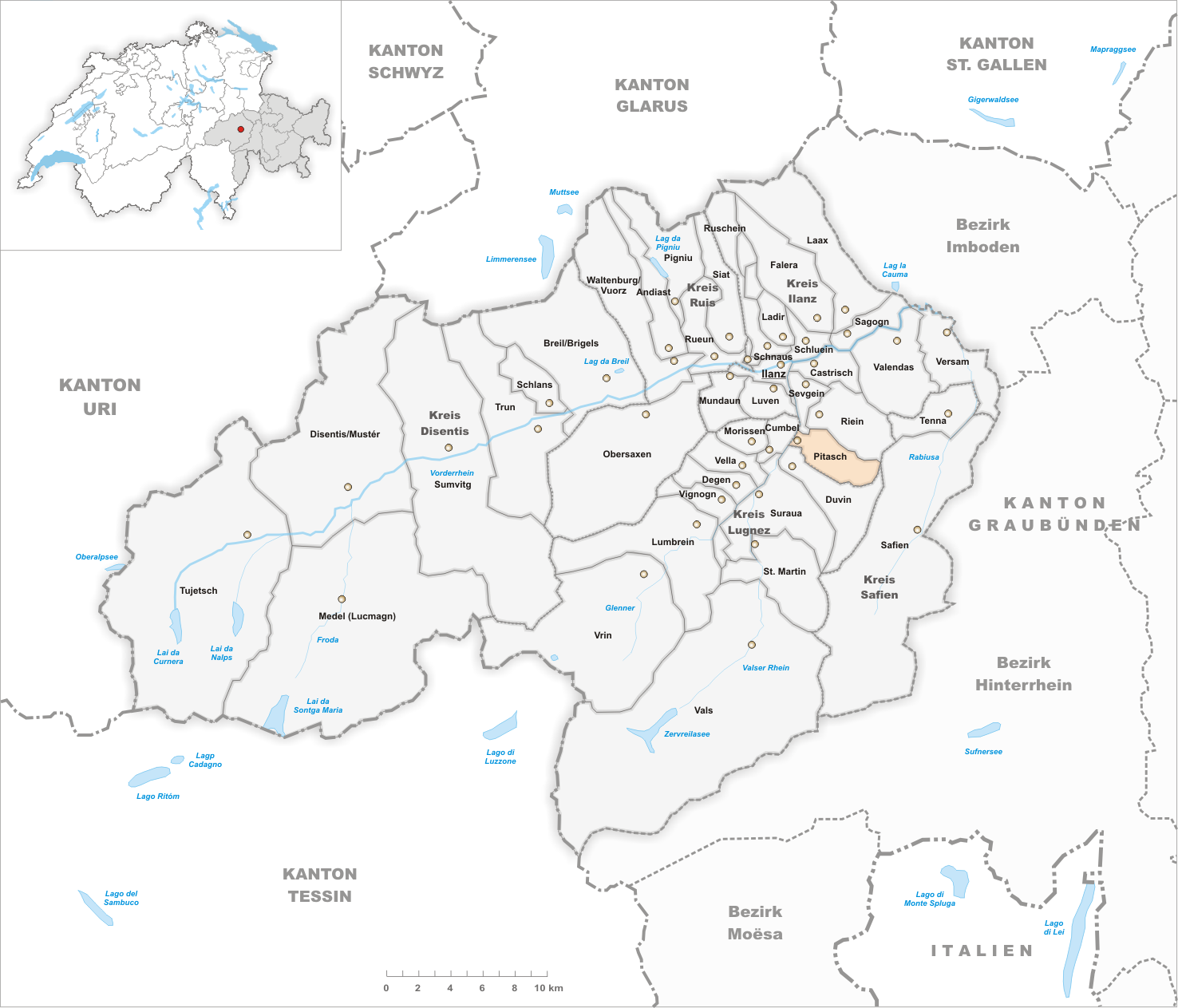 Municipality Pitasch